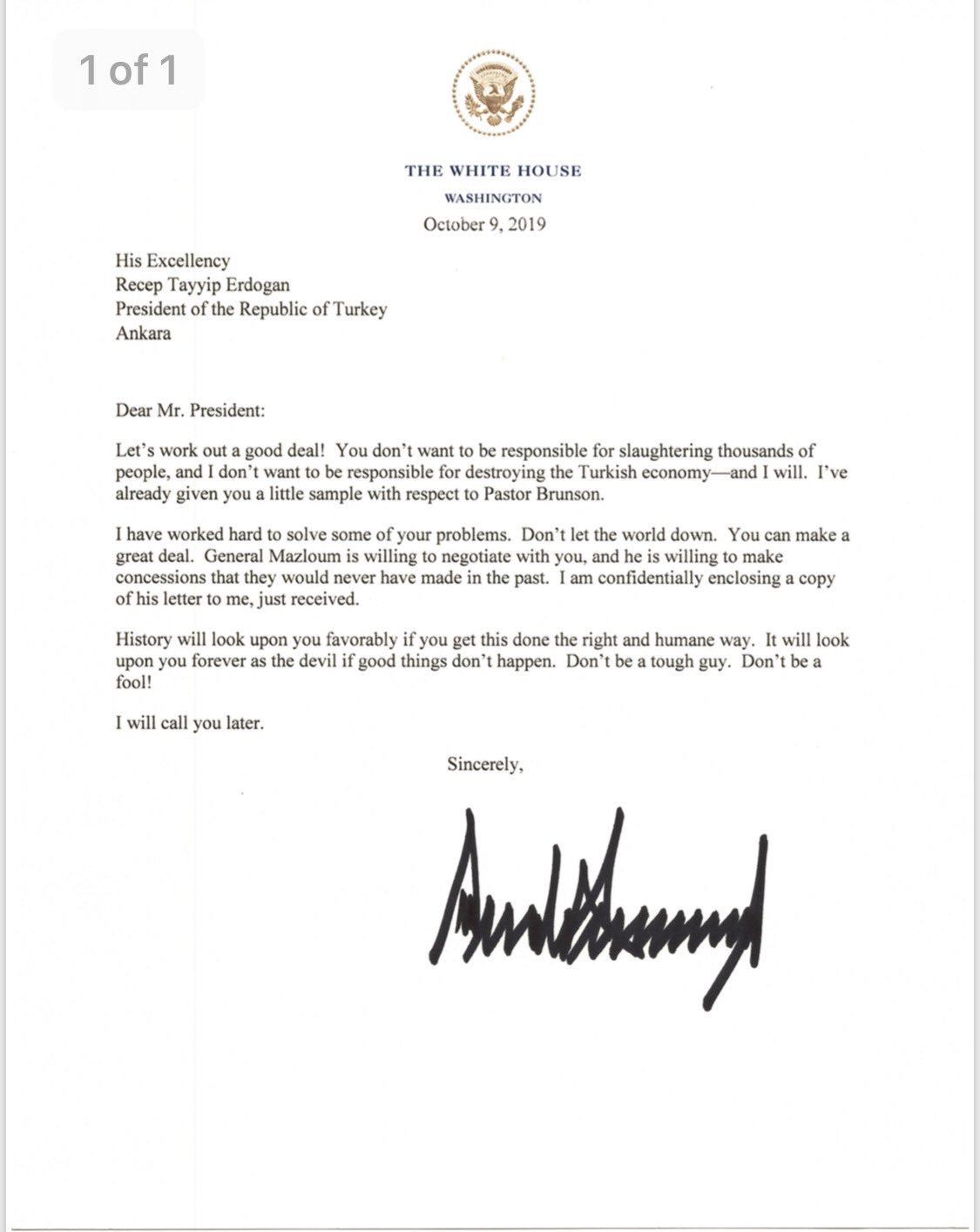 A letter on White House stationery beginning, "Dear Mr. President: Let's work out a good deal! You don't want to be responsible for slaughtering thousands of people, and I don't want to be responsible for destroying the Turkish economy—and I will."